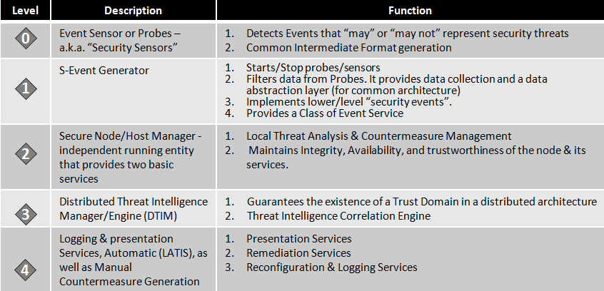 Fabric Of Security Architectural Layers